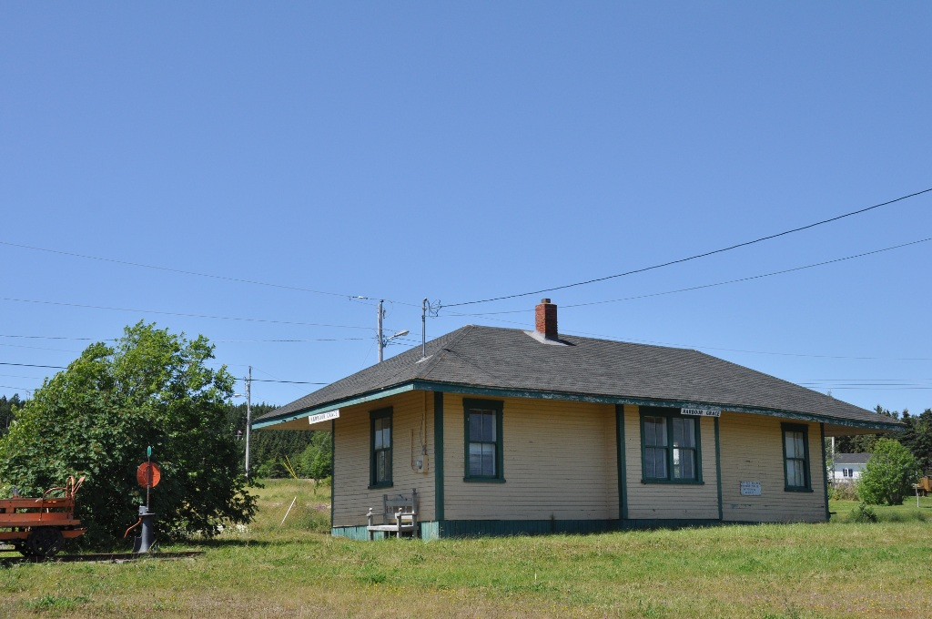 Gordon G. Pike Railway Heritage Museum and Park, Harbour Grace, Newfoundland.